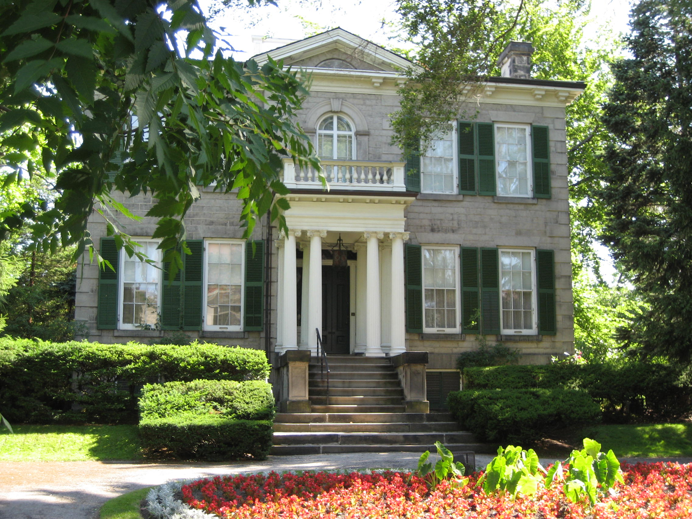 Whitehern Museum, MacNab Street North, downtown Hamilton, Ontario